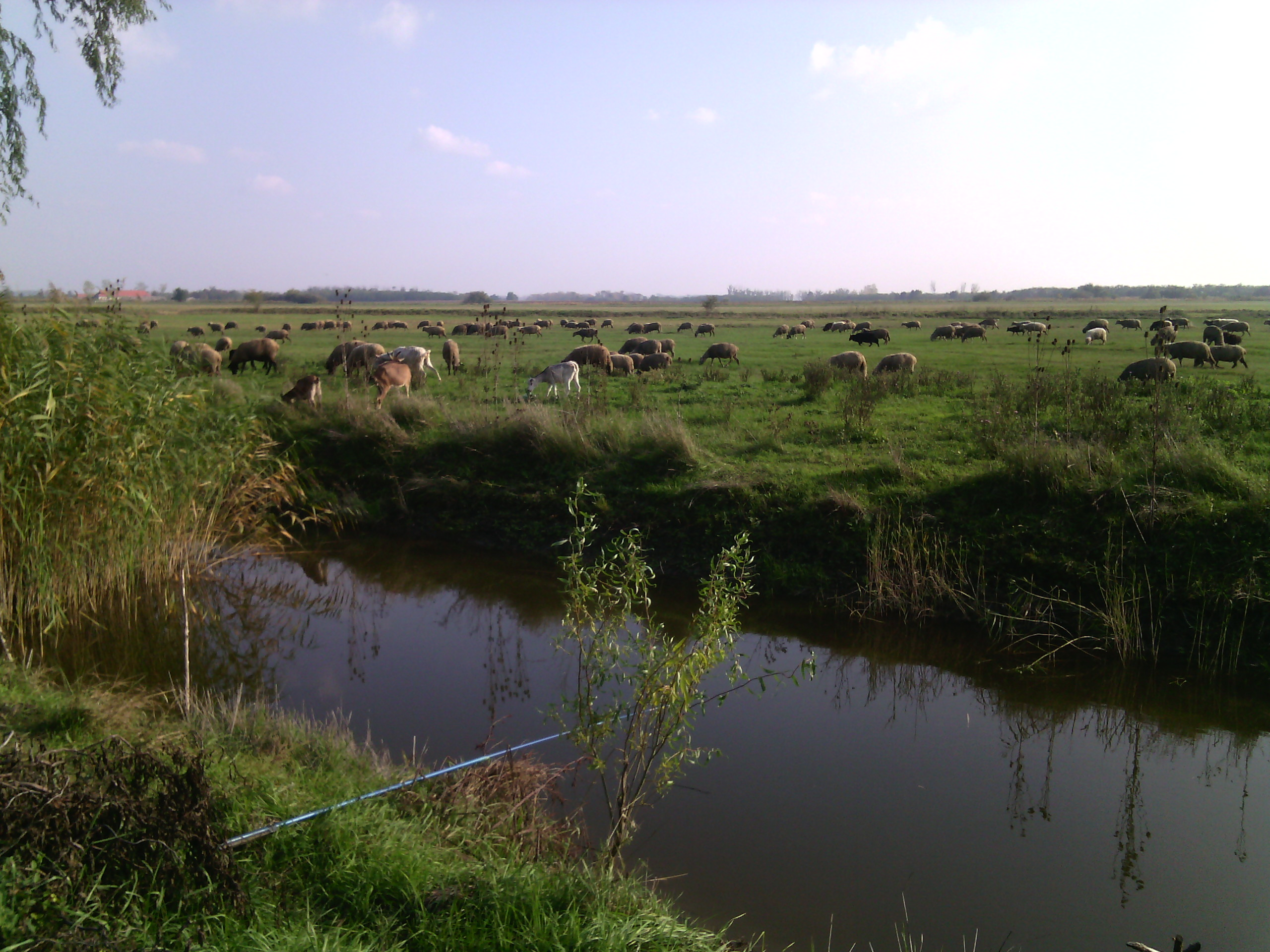 Kocsordos